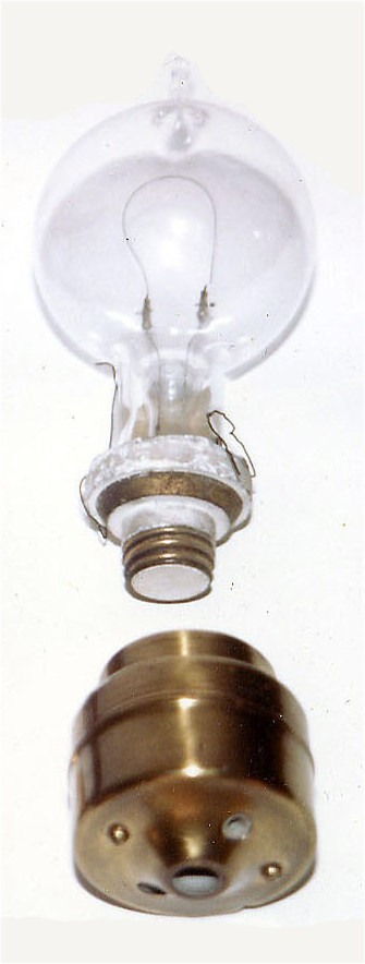 Edison lamp 1881 socket